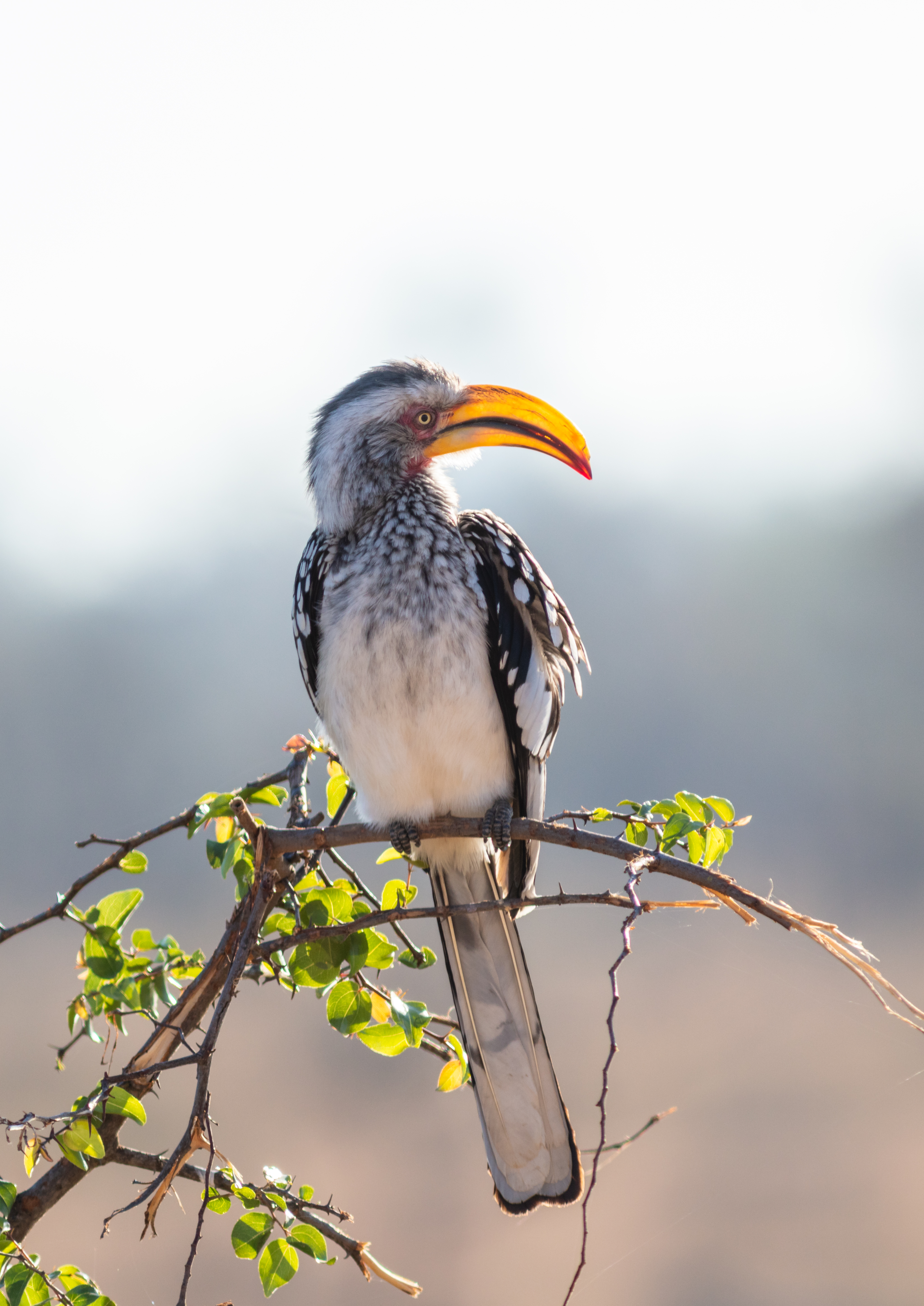 Southern yellow-billed hornbill (Tockus leucomelas), Kruger National Park, South Africa